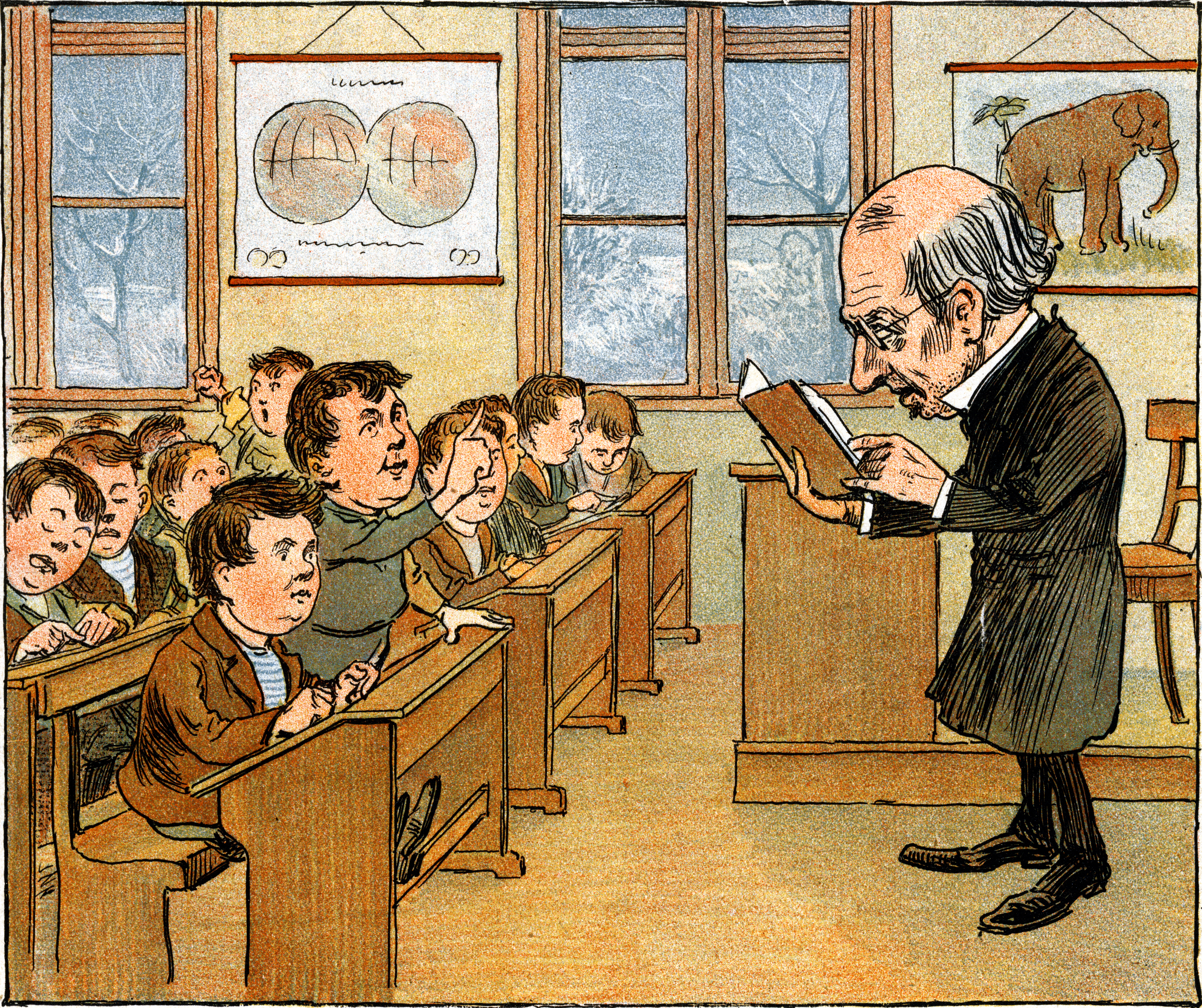 Teacher: So we come to the sixth commandment. We skip it. You do not understand yet. . . . the school student: (7 years old), Mr. Teacher! May I?